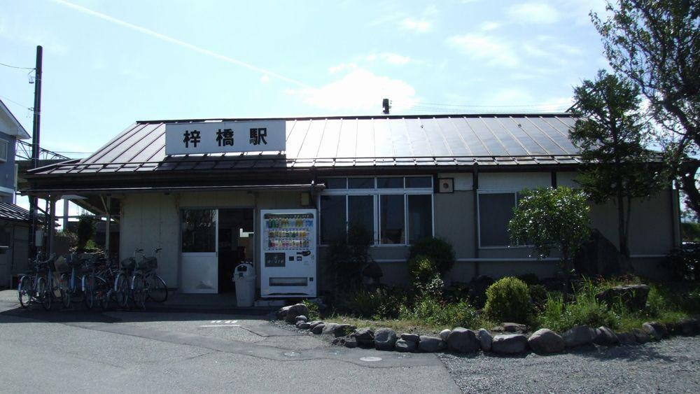 Azusabashi Station